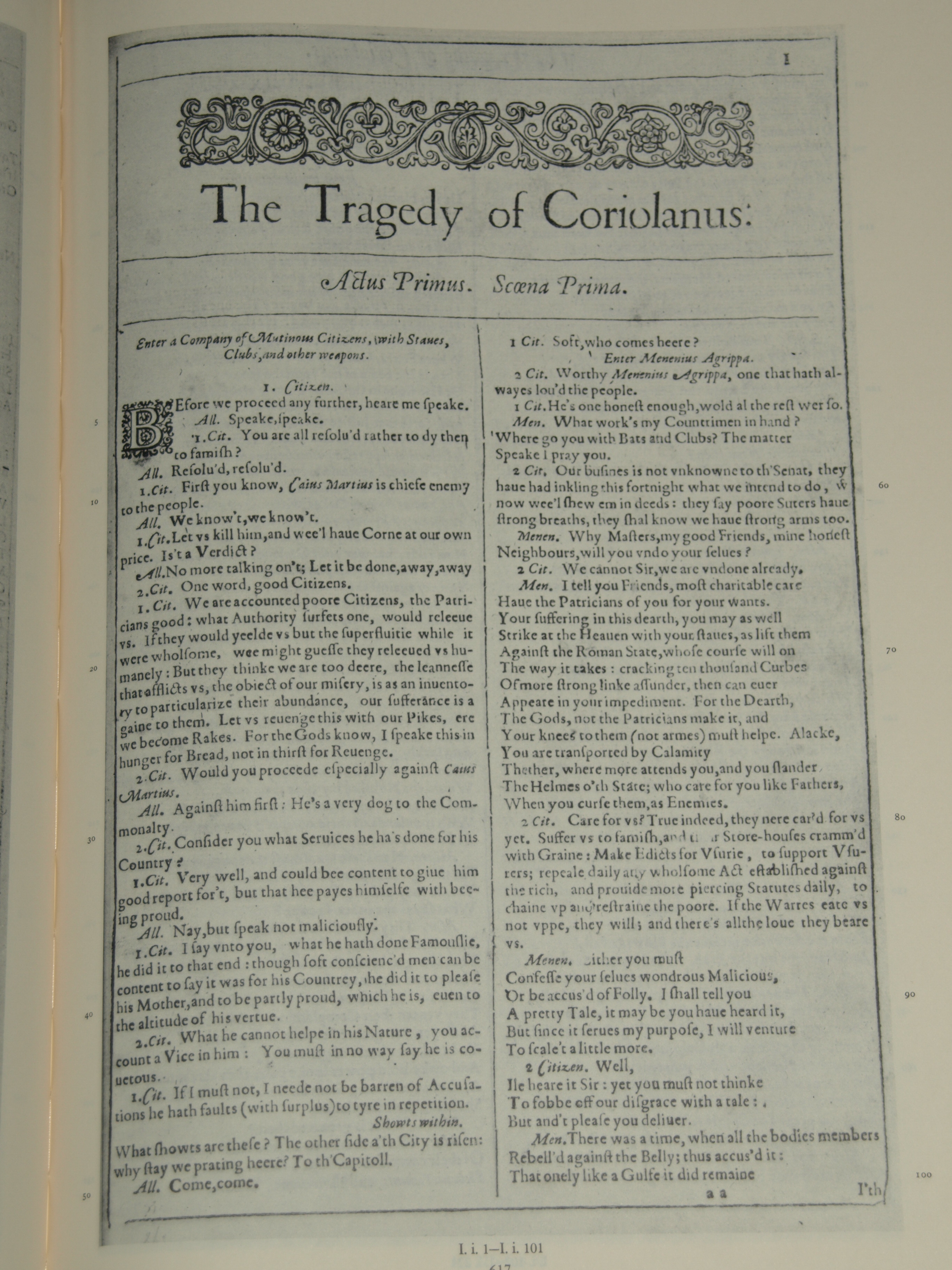 Photo of the first page of Coriolanus from a facsimile edition of the First Folio of Shakespeare's plays, published in 1623